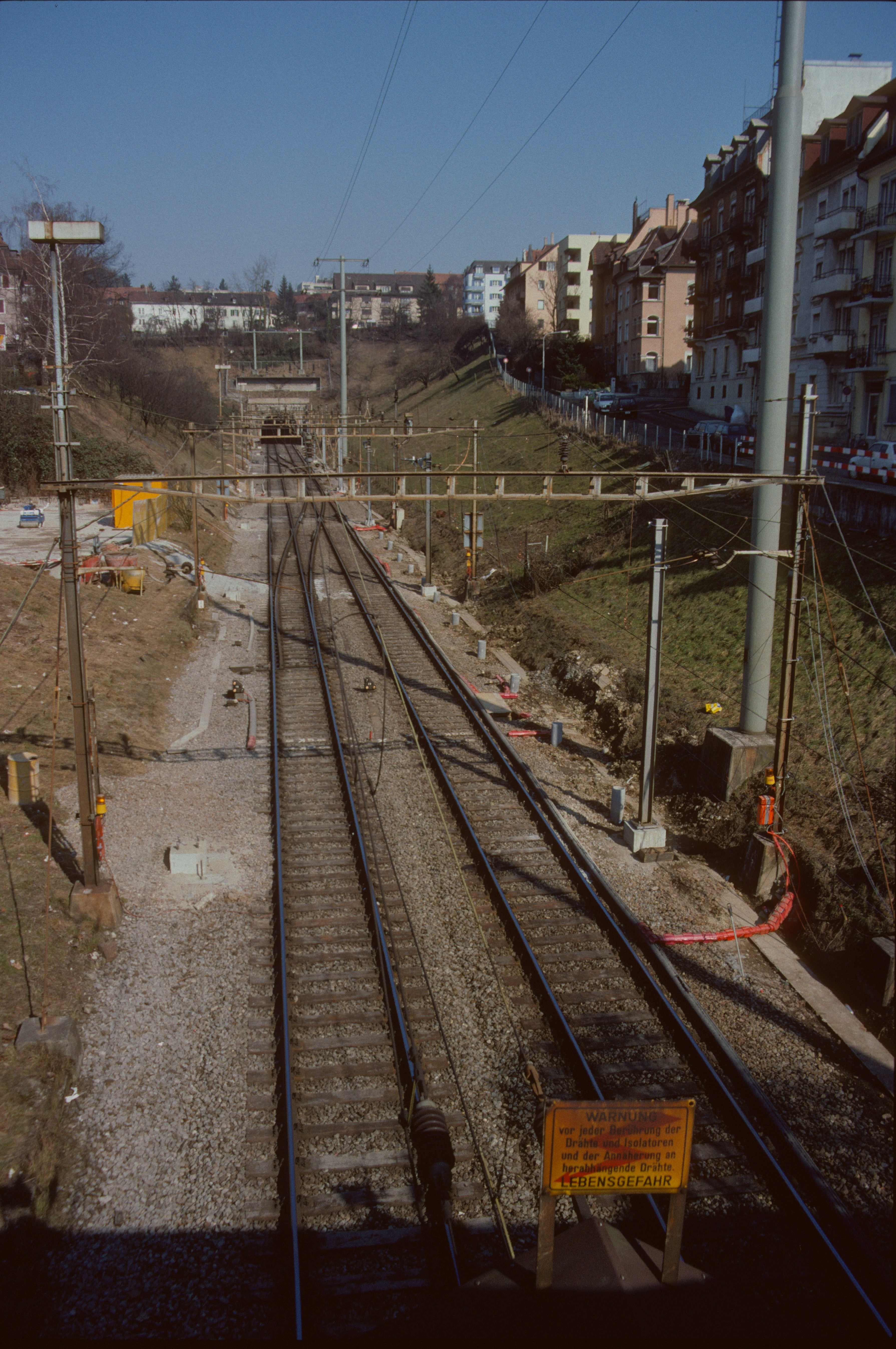 Now covered railway line in Wipkingen north of Nordbrücke which follows the railway station Wipkingen to the north